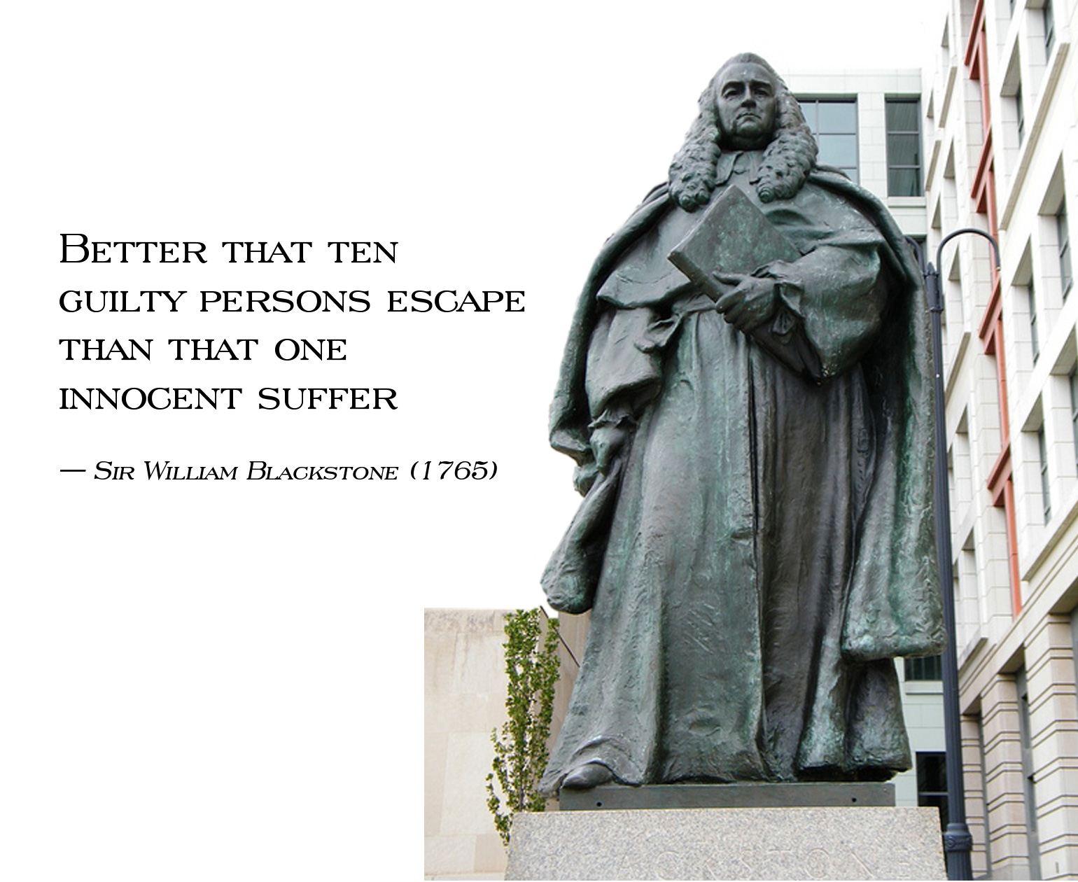 Blackstone's ratio is the most famous of a series of statements of this principle of justice, "better that ten guilty persons escape than that one innocent suffer"